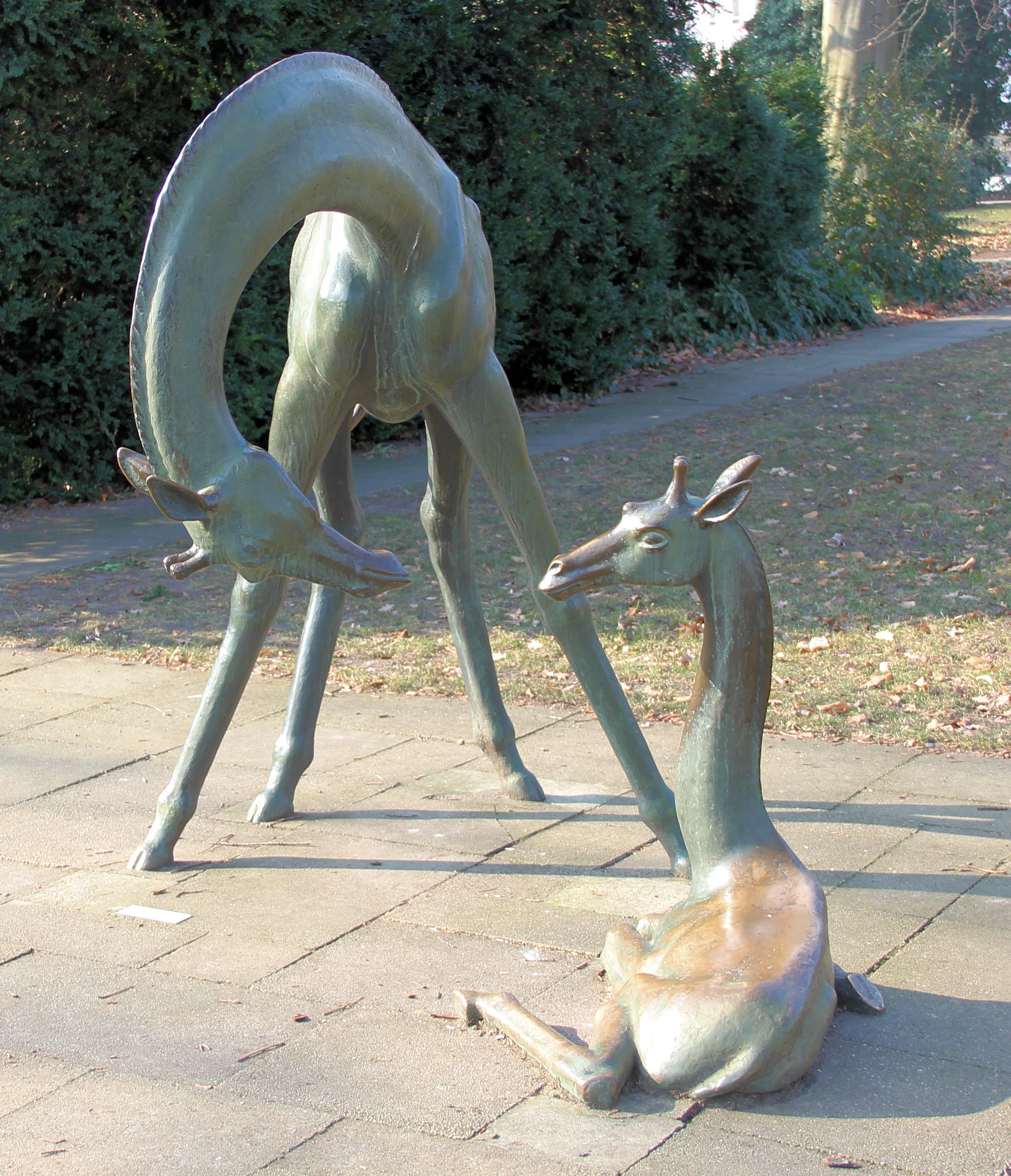 Memorial, "Zwei Giraffen" by Hans-Detlev Hennig, 1979-80, Schloßinsel, Berlin-Köpenick, Germany